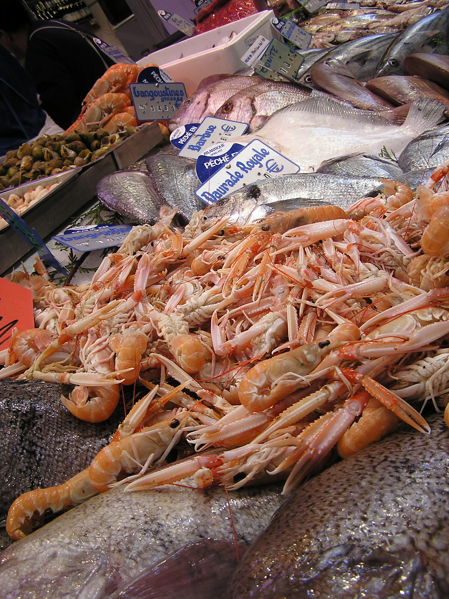 Paris Fish Market